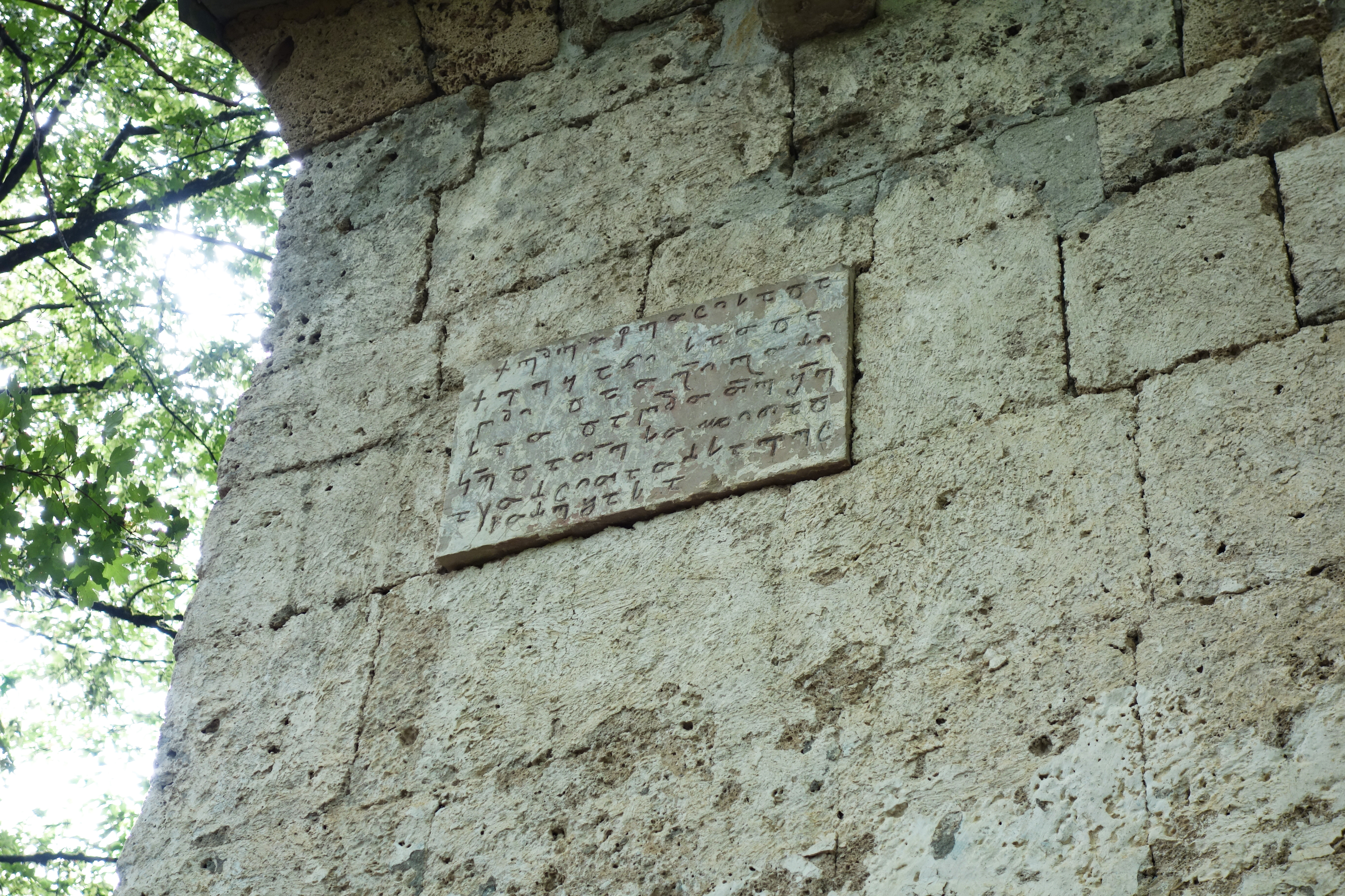 Inscription on the northern wall of Khimshi Church (XI c.), Khimshi, Racha, Georgia